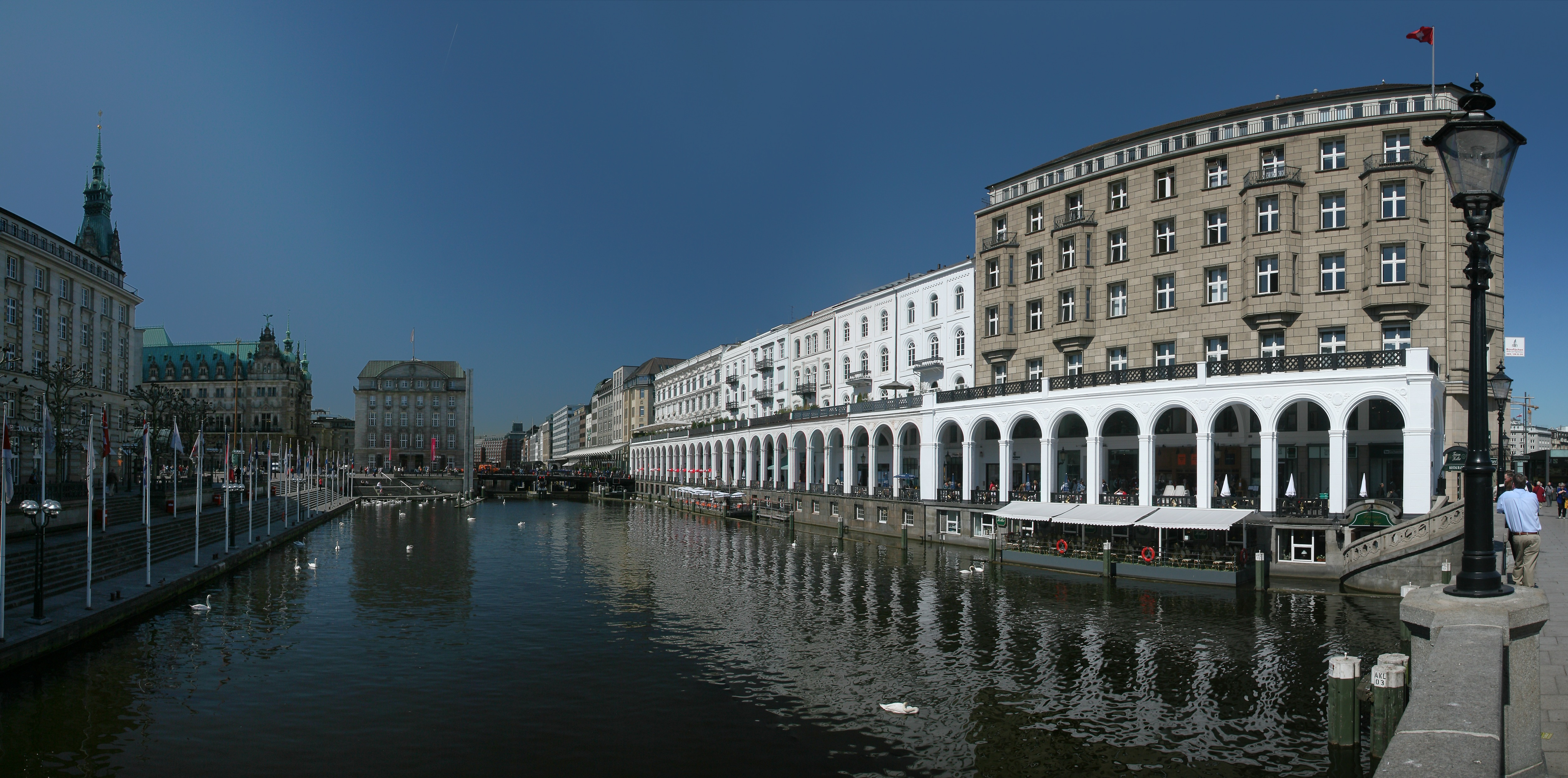 Alsterarkaden Hamburg, Germany